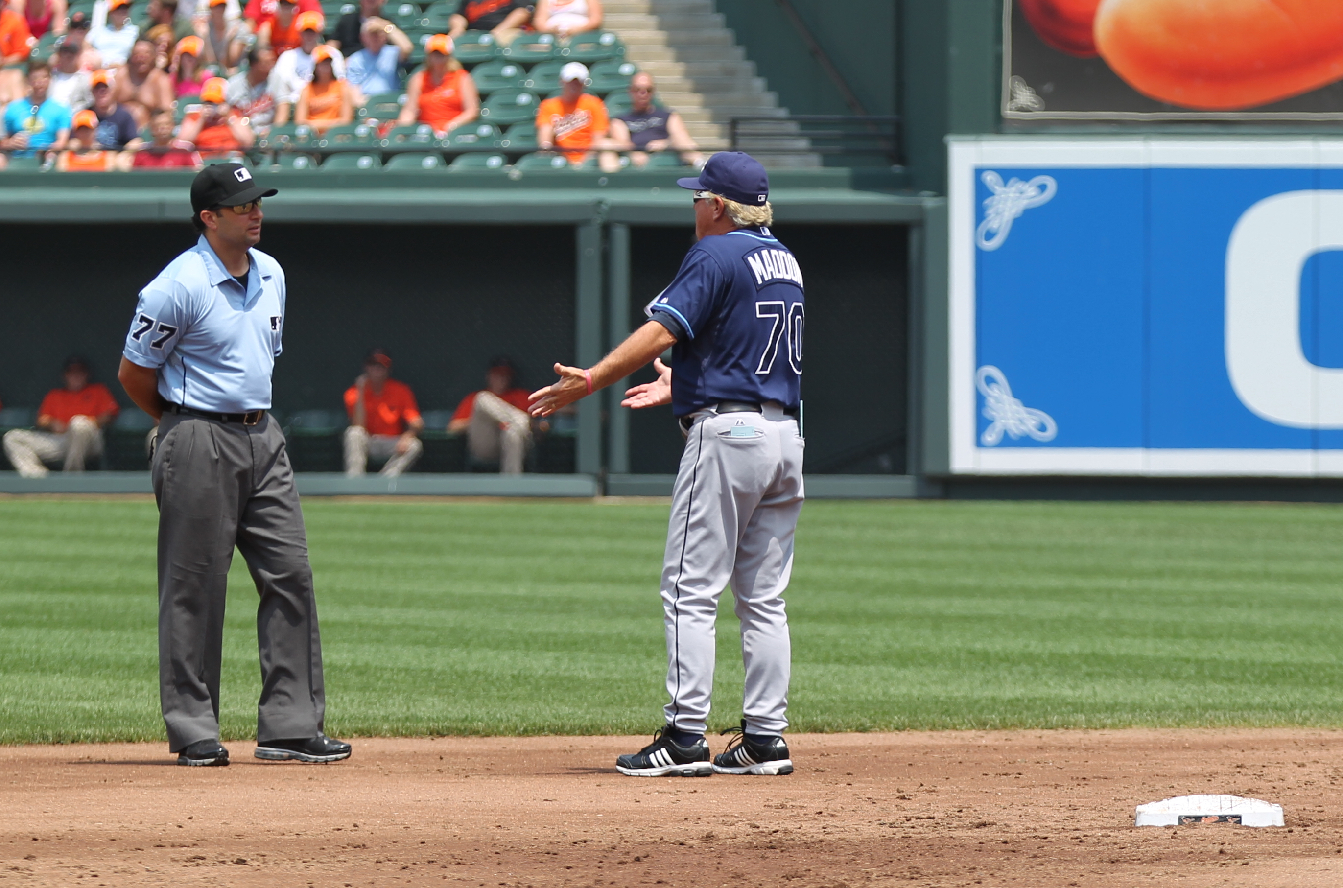 Tampa Bay Rays at Baltimore Orioles June 12, 2011